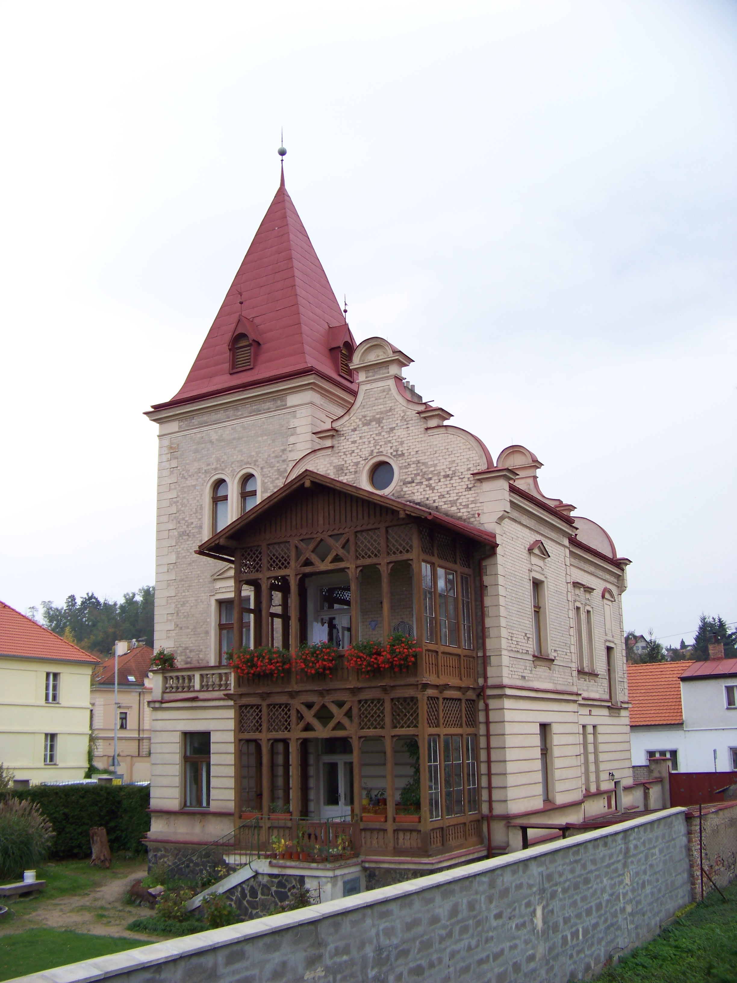 Prague-Zbraslav, the Czech Republic, Žitavského street, a villa.